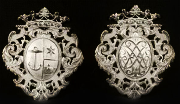 Two golden book-locks. Made between 1700 and 1740. 5,8 x 6,7 cm.